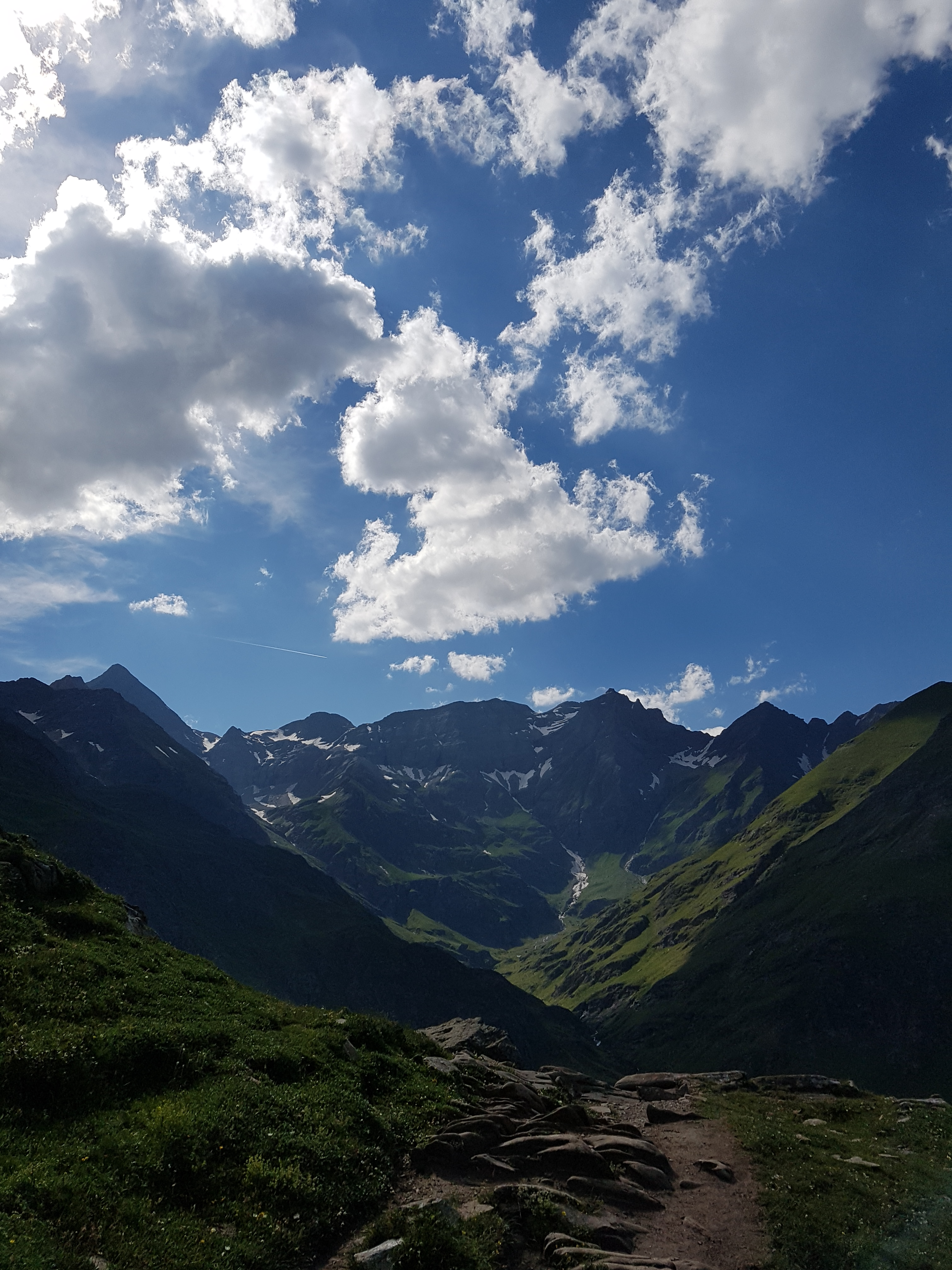 Alpi Graie , massiccio Rocciamelone